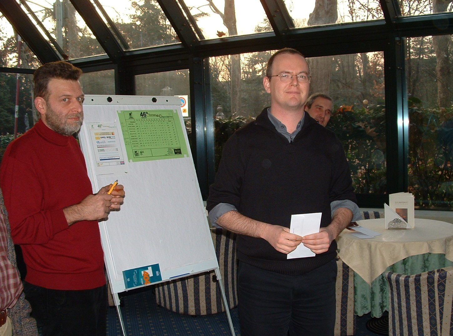 Photo of Fabio Bellini at Reggio Emilia chess tournament 2003/04.